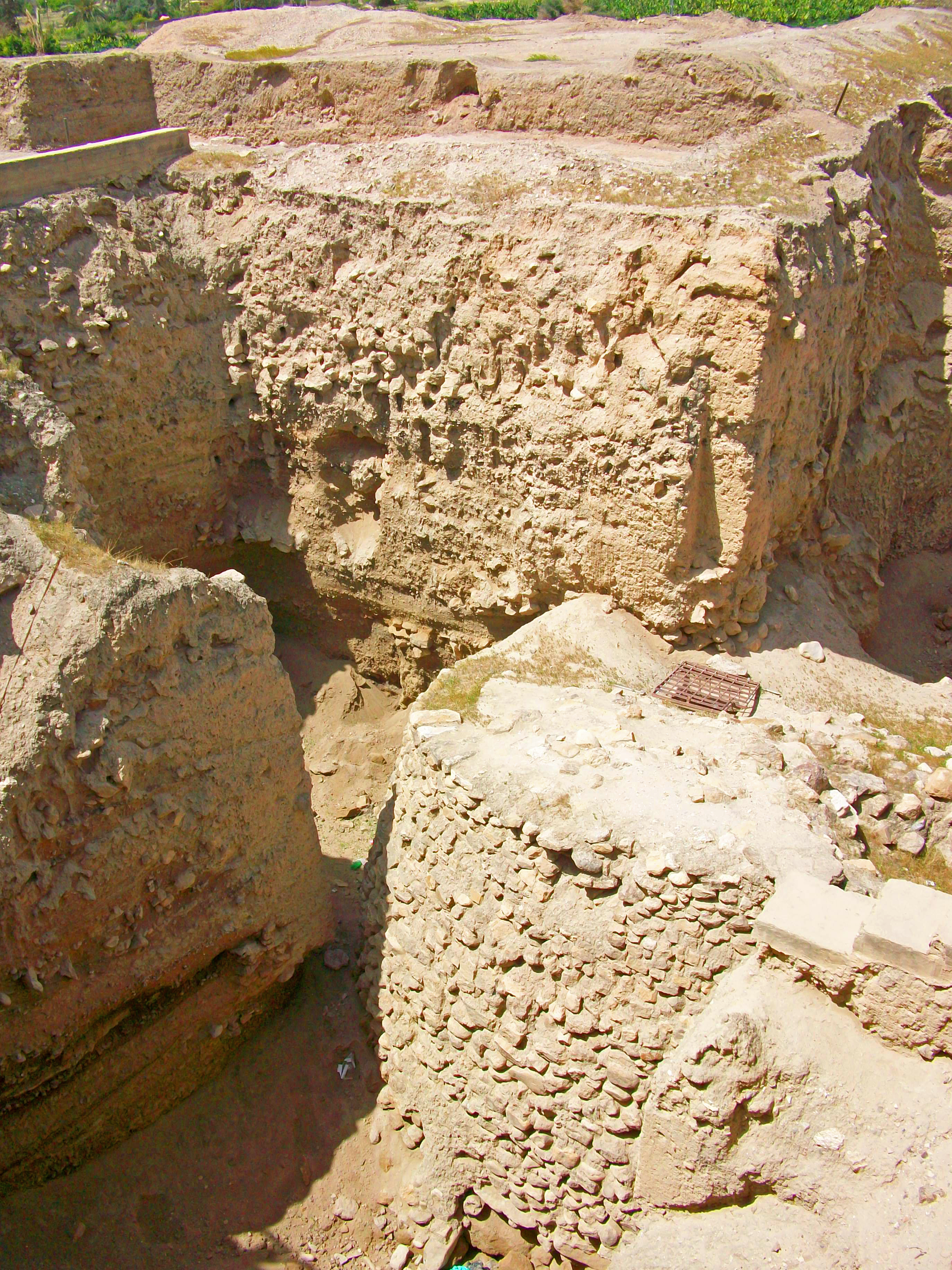 The walls of old Jericho, revealed by excavations (apparently they didn't all come tumbling down after all).